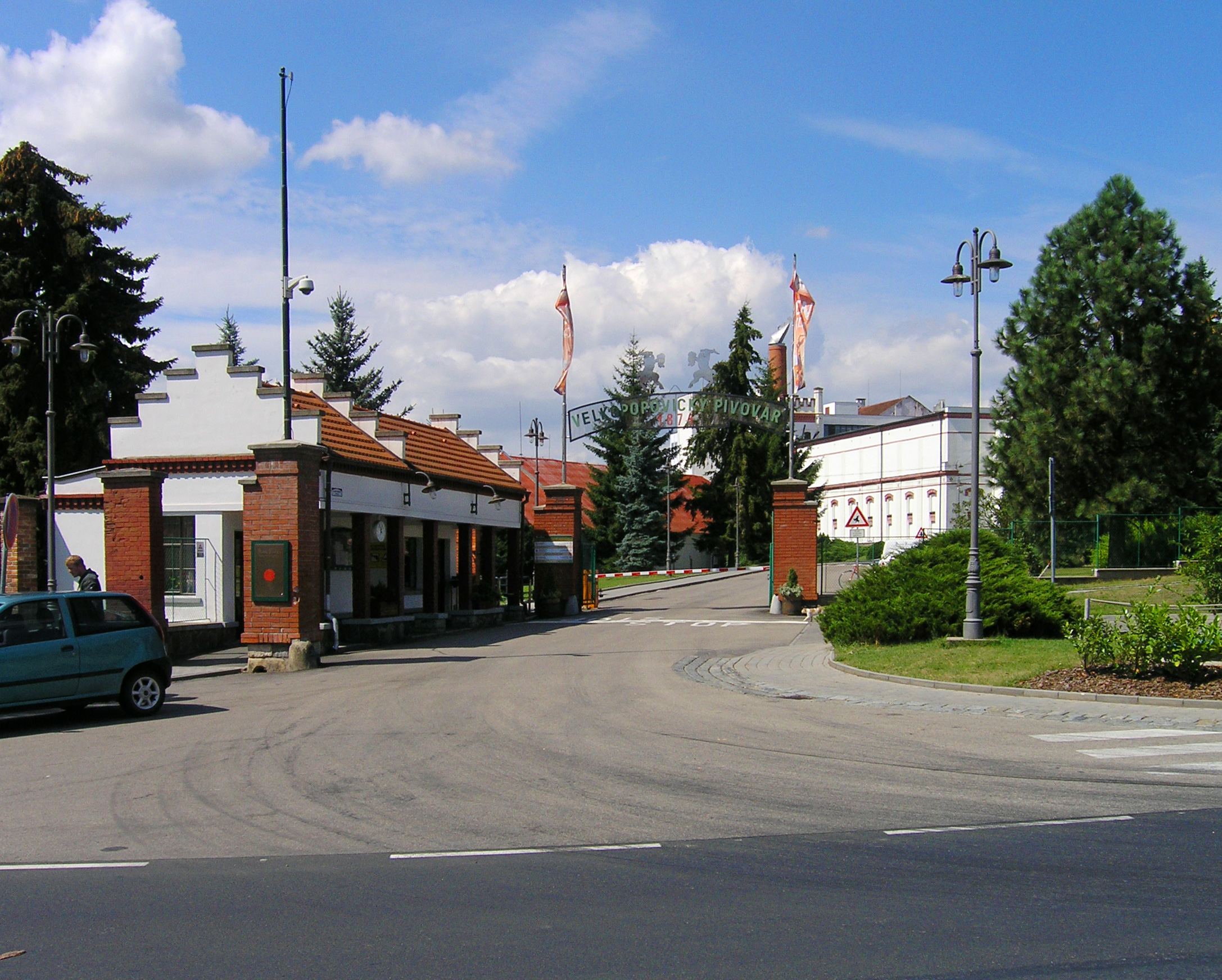 Brewery in Velké Popovice, Czech Republic